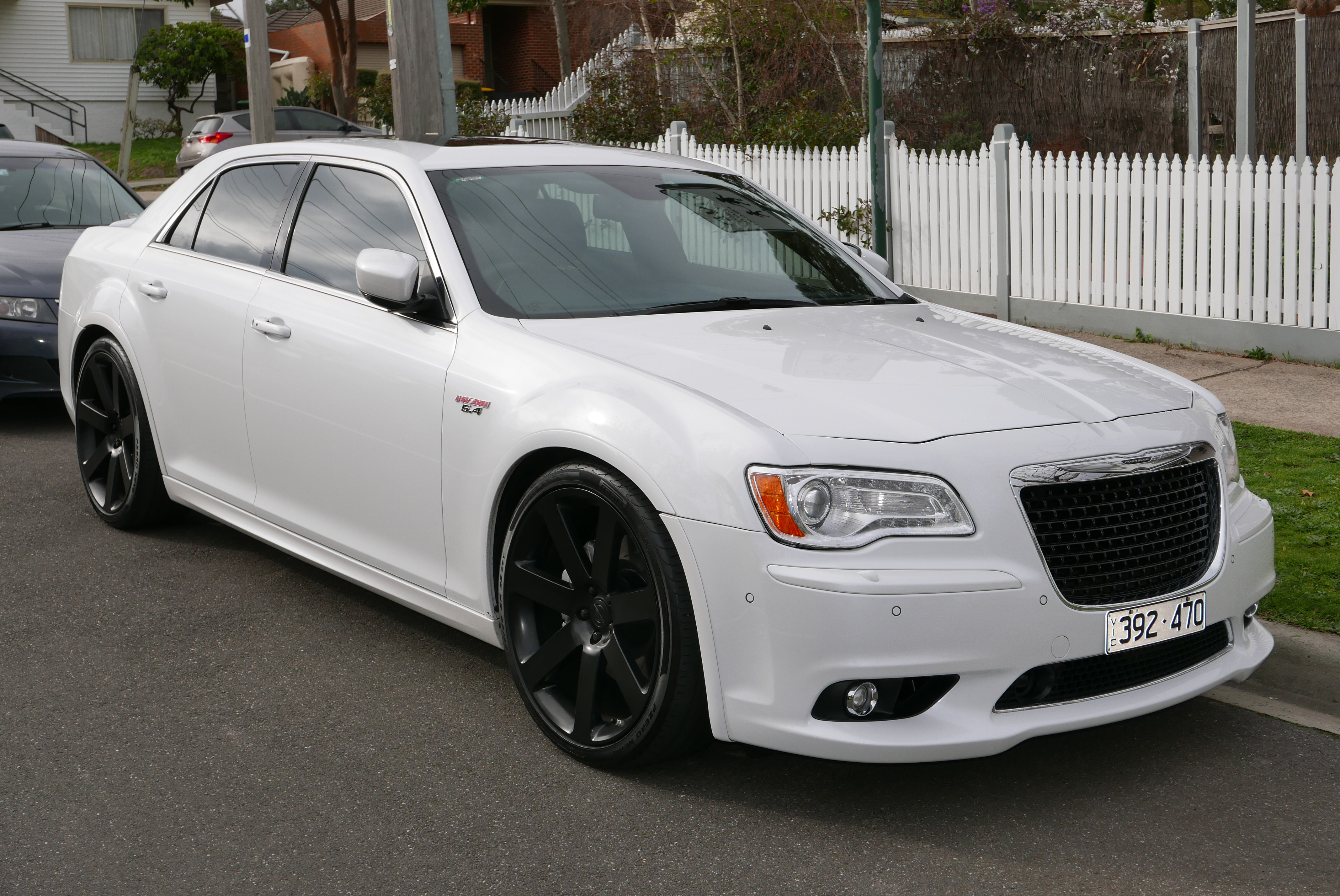 2013 Chrysler 300 (LX MY13) SRT-8 sedan. Photographed in Box Hill North, Victoria, Australia. Vehicle registration enquiry resultsJurisdictionVictoriaRegistration392470Chassis code2C3CCANJ4DH567636Engine codeDH567636Compliance date2013-06Year of manufacture2013